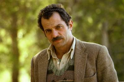 Photograph